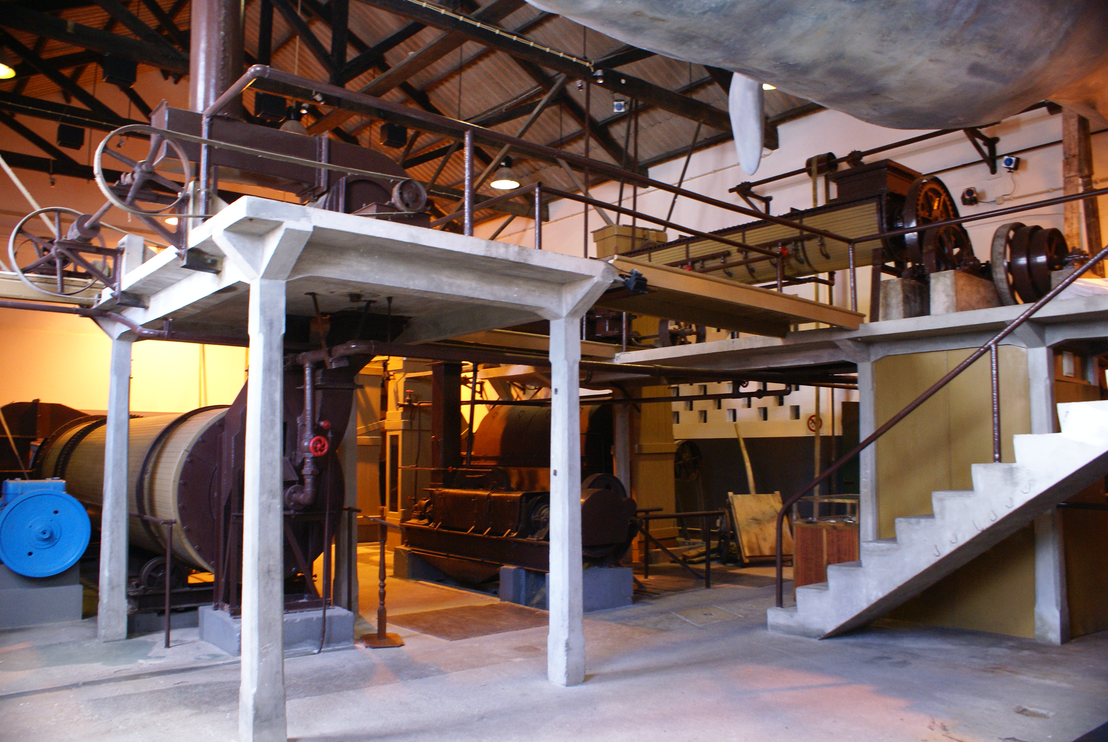 Fábrica da Baleia, actual Museu da Baleia, aspectos 5, cidade da Horta, ilha do Faial, Açores, Portugal